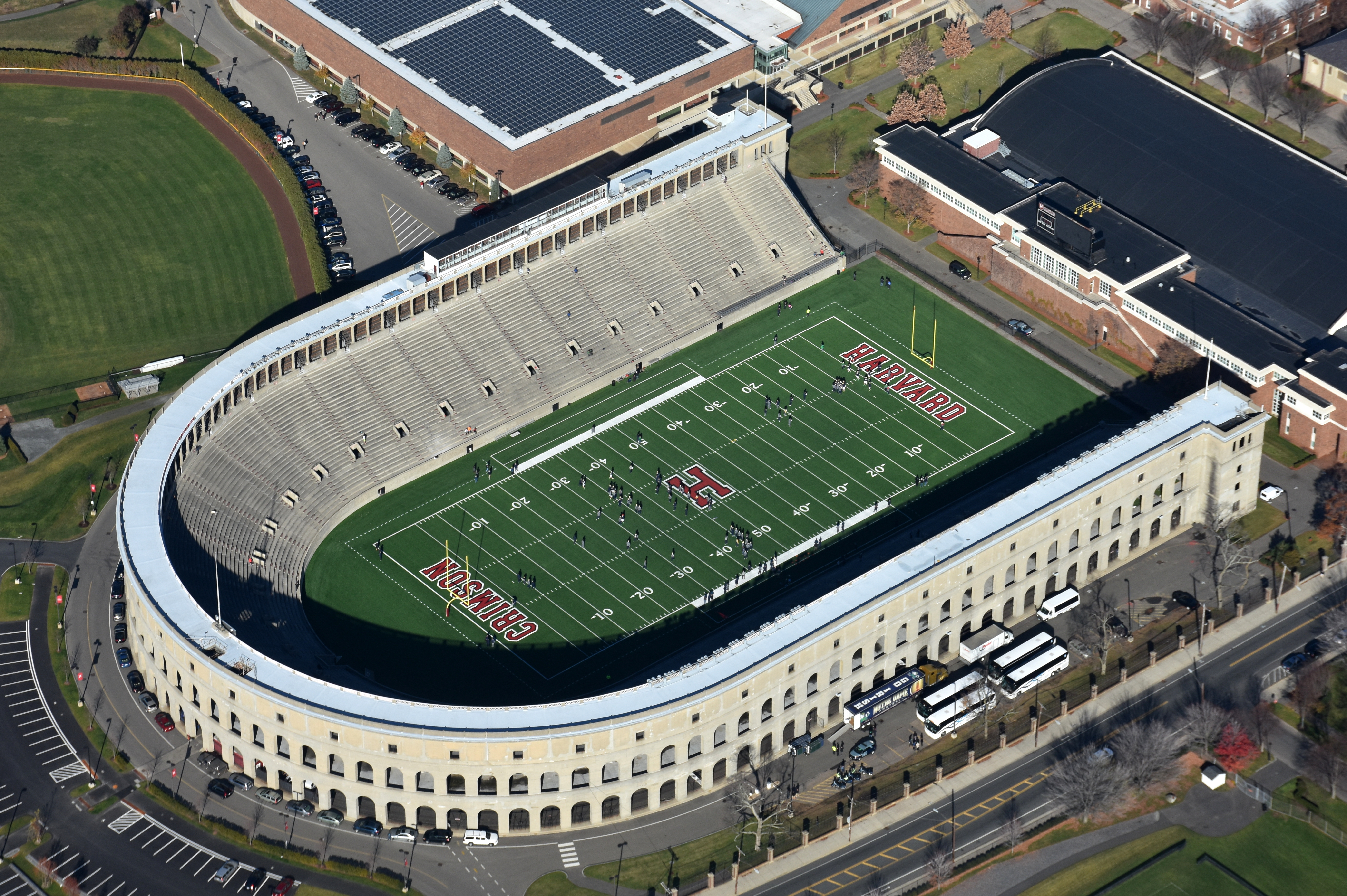 Aerial view of Harvard Stadium in the Allston neighborhood of Boston, Massachusetts. Taken on a Saturday in November 2015. Notre Dame was scrimmaging on Soldier's Field in preparation for an evening game against Boston College at Fenway Park. The Harvard Crimson were away playing football in New Haven, Connecticut.